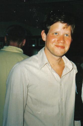 Polish actor Łukasz Garlicki.